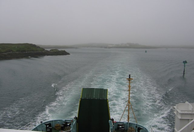 Passing Gasaigh. Out in Loch Baghasdail on the ferry to Oban, passing the small island of Gasaigh.